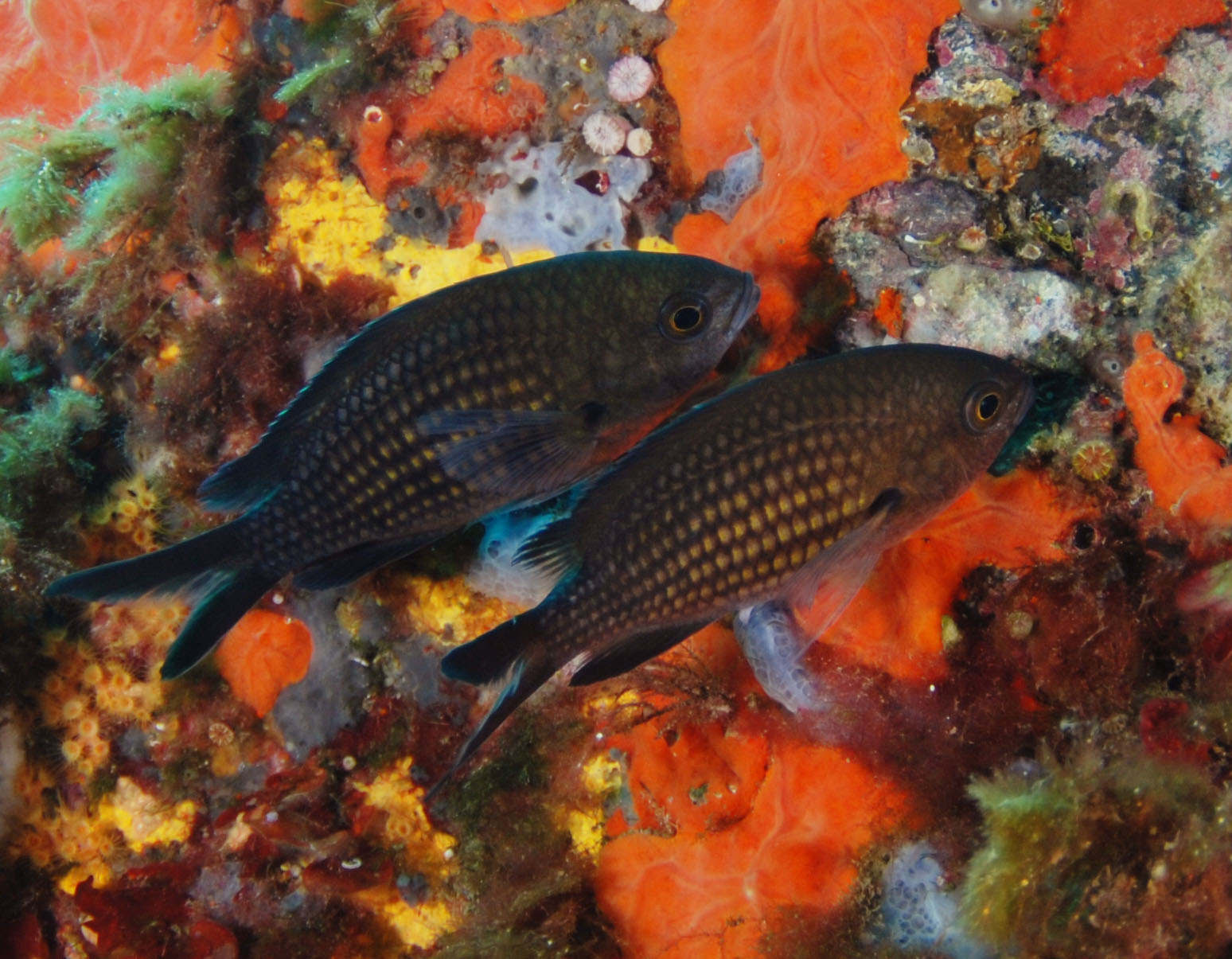 Pair